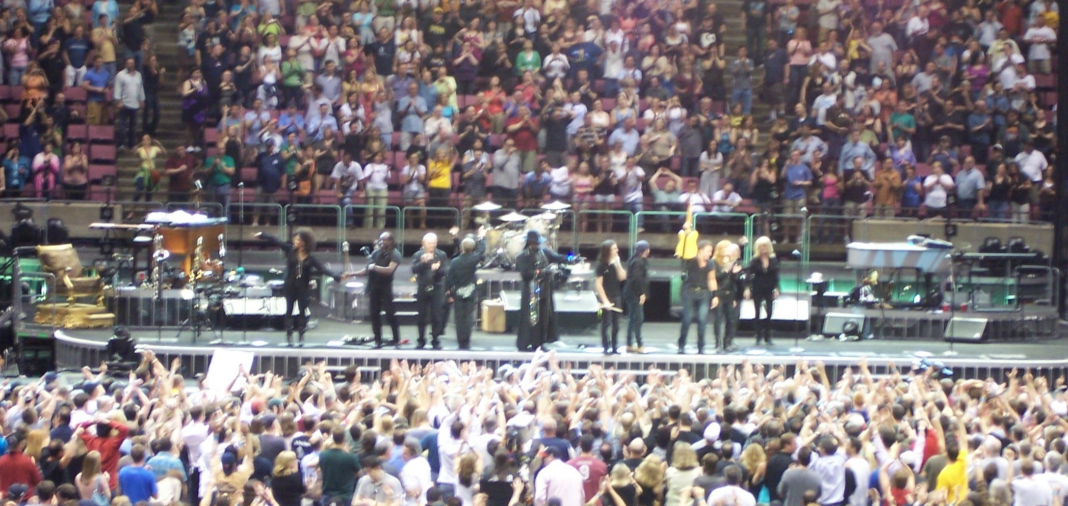 The E Street Band at the end of a concert at Meadowlands Arena